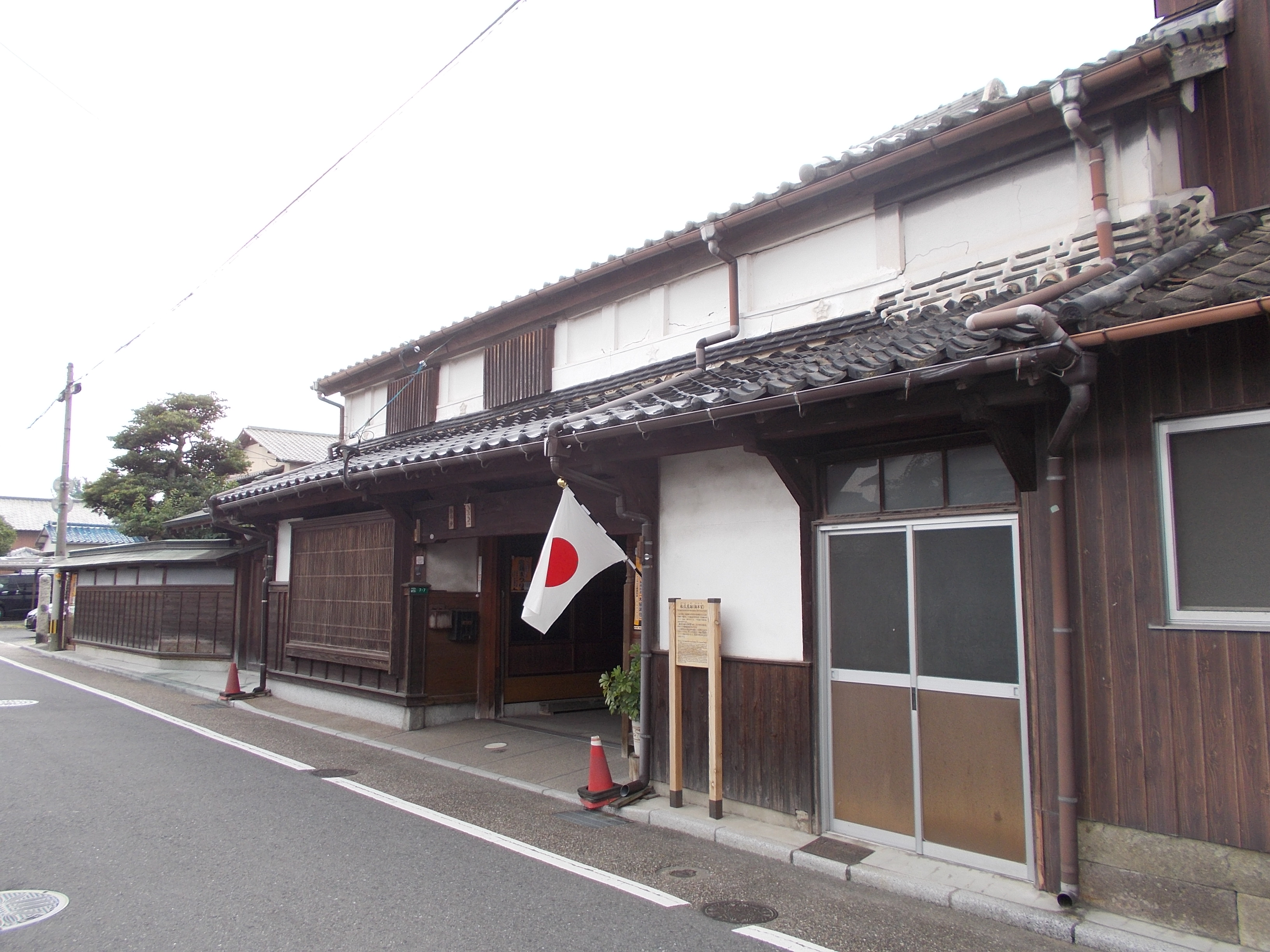 The site of Funa-shoya (船庄屋跡 = the house of the vessel headmen) in Koyanose-juku on the Nagasaki Kaido, Yahatanishi-ku, Kitakyushu, Japan.